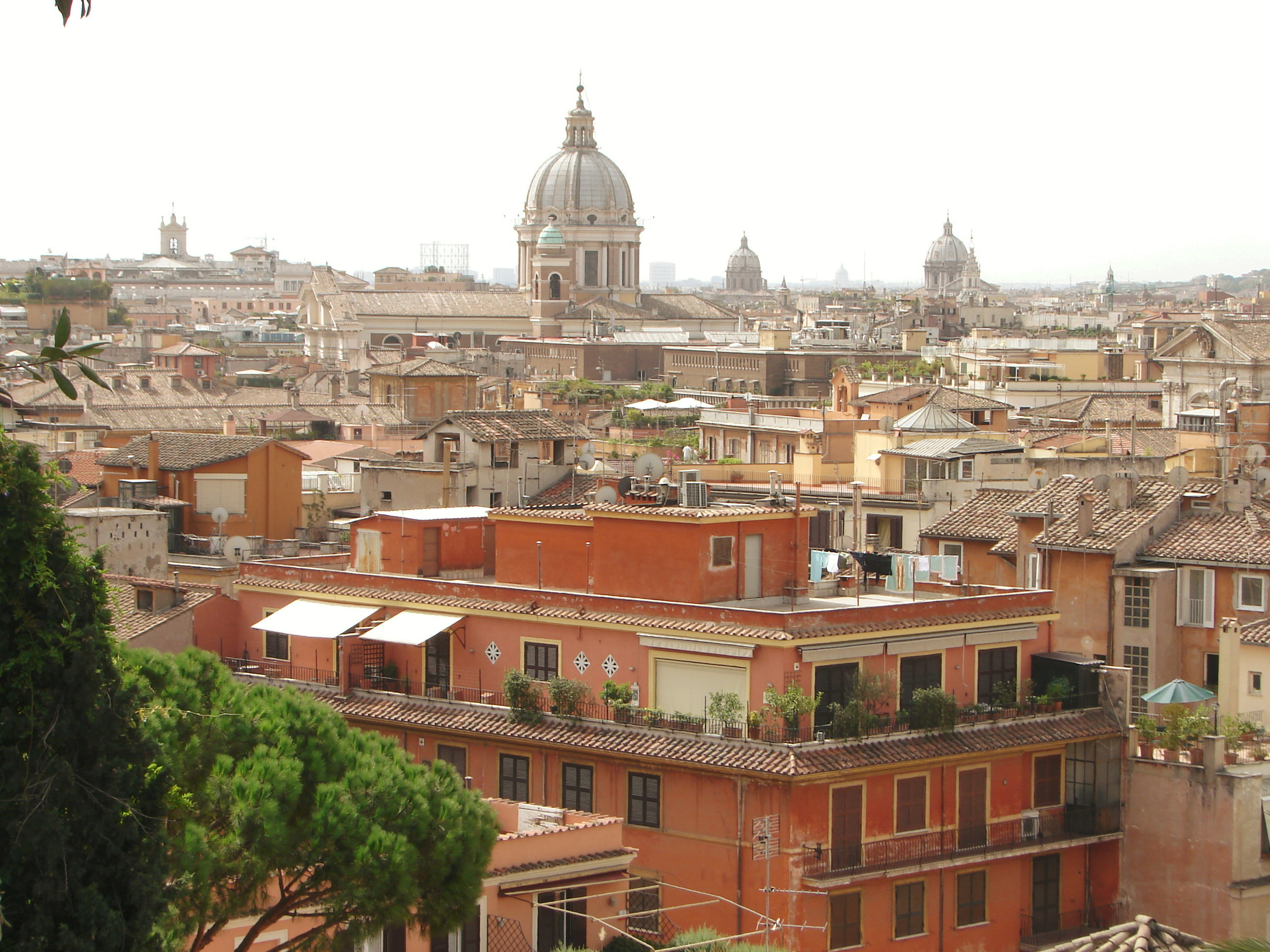 View from the belvedere at Villa Boghese park